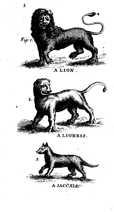 Lion and jackal illustrations from Thomas Boreman's Three Hundred Animals